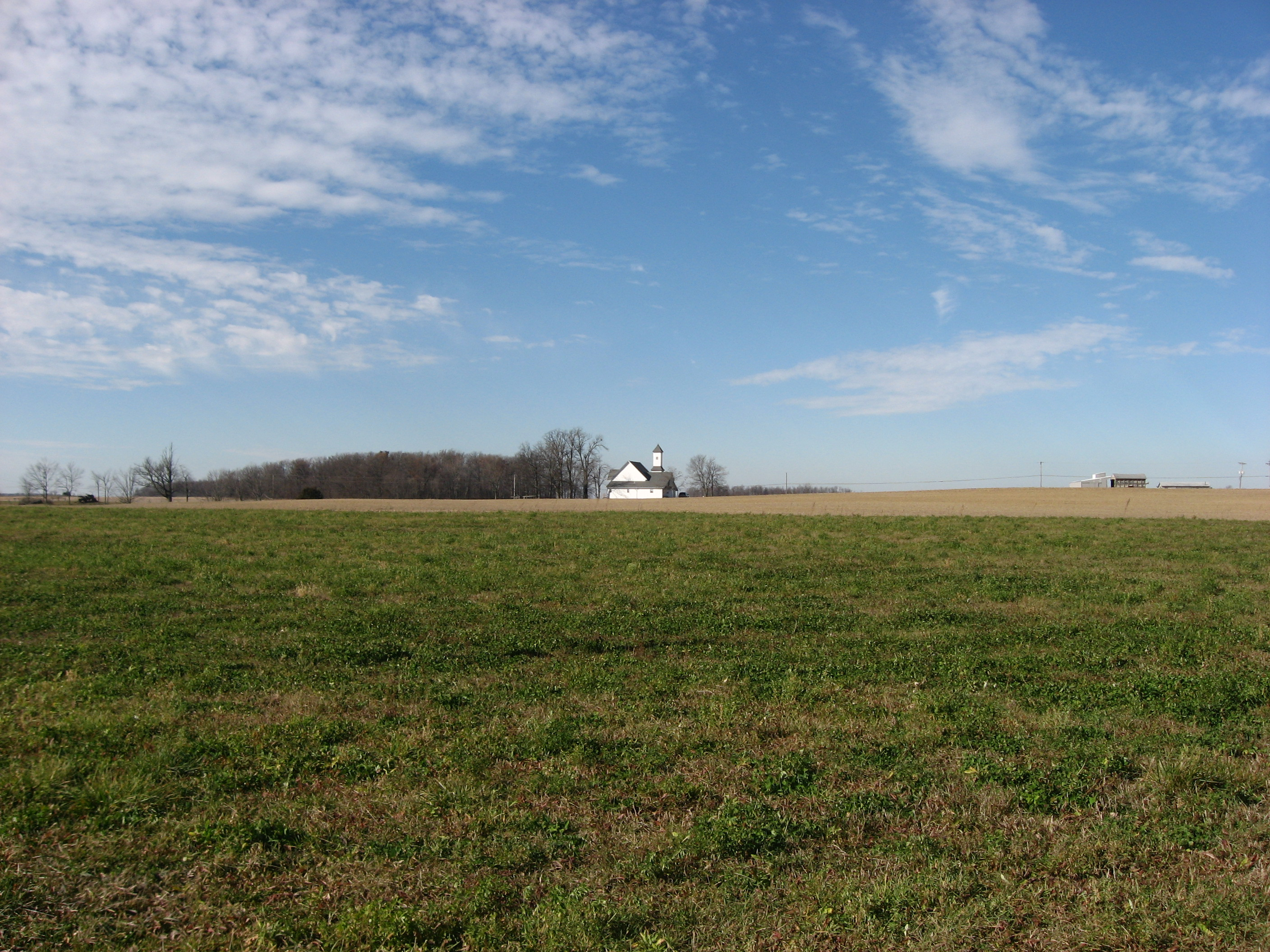 Countryside centering on the rear of Silver Creek United Methodist Church, located at 17314 County Road 115 north of Belle Center in Taylor Creek Township, Hardin County, Ohio, United States. Photo taken from Township Road 119, slightly less than ¼ mile to the east.